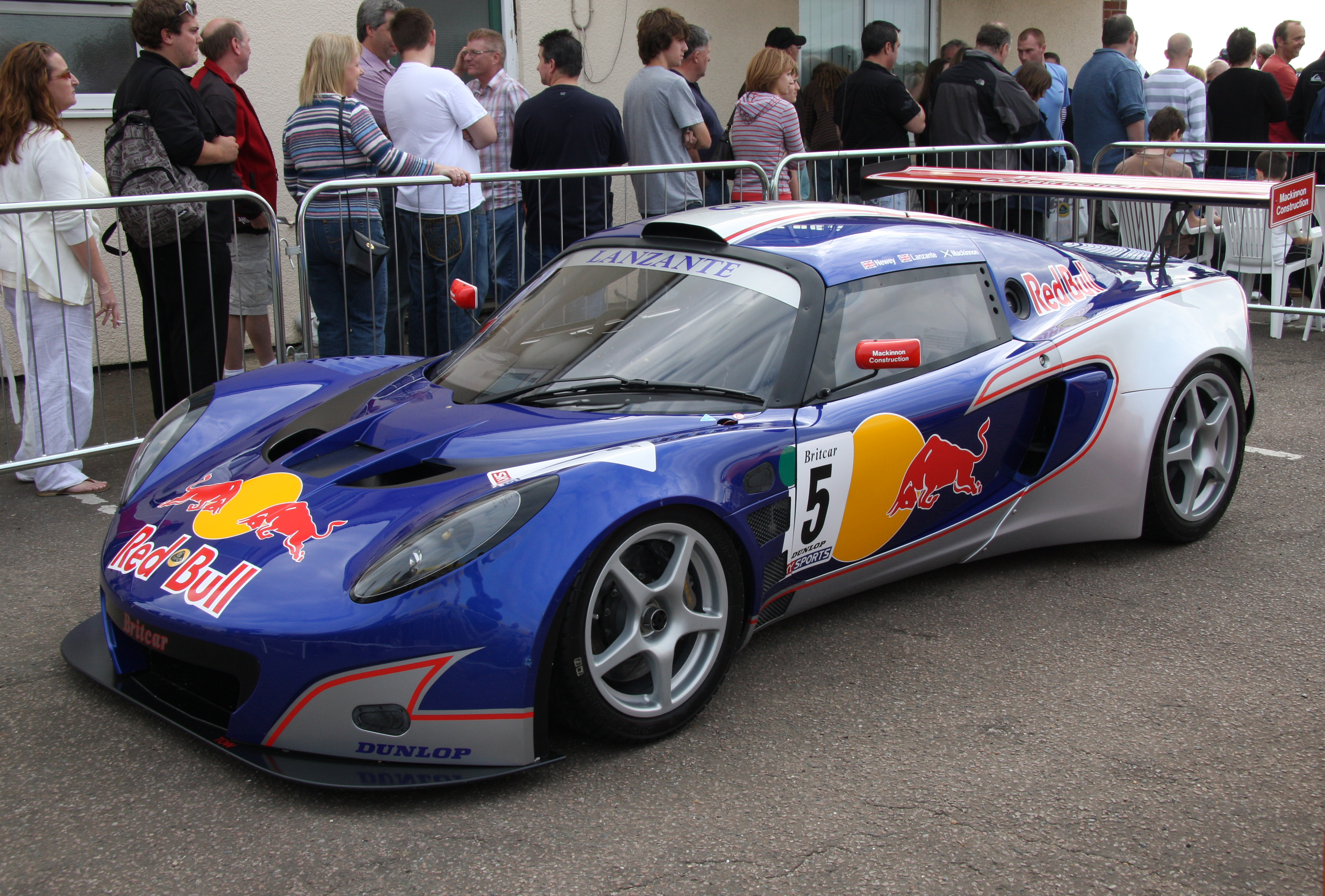 Lotus 60th Celebration